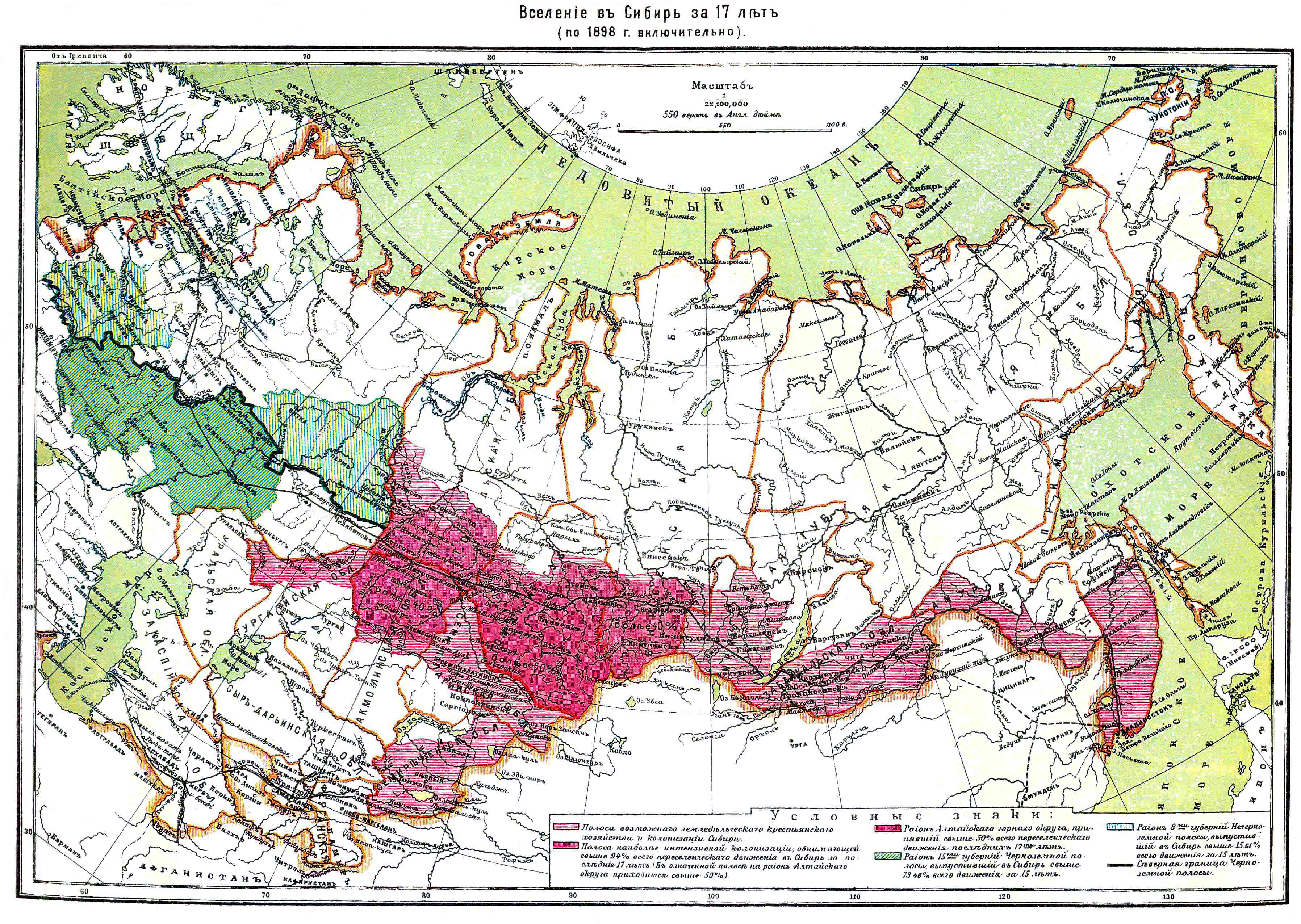 Illustration from Brockhaus and Efron Encyclopedic Dictionary (1890—1907)